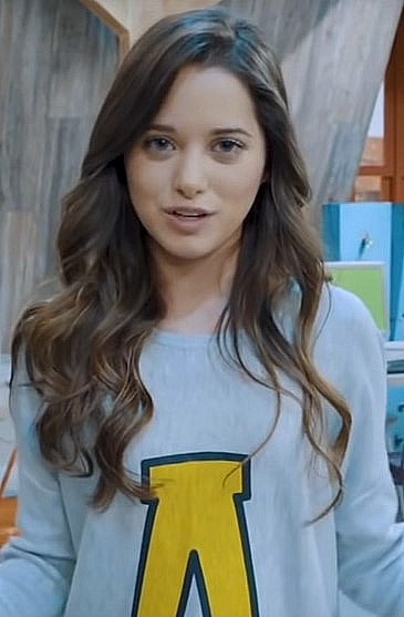 Mexican actress Michelle Olvera in 2018